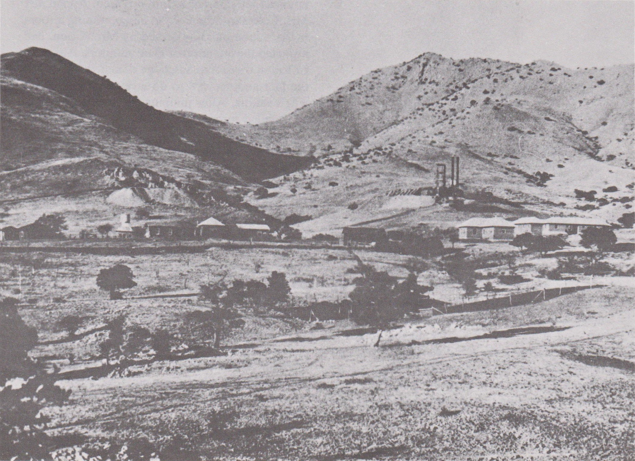 USGS photo of Salero, Arizona, in 1909.